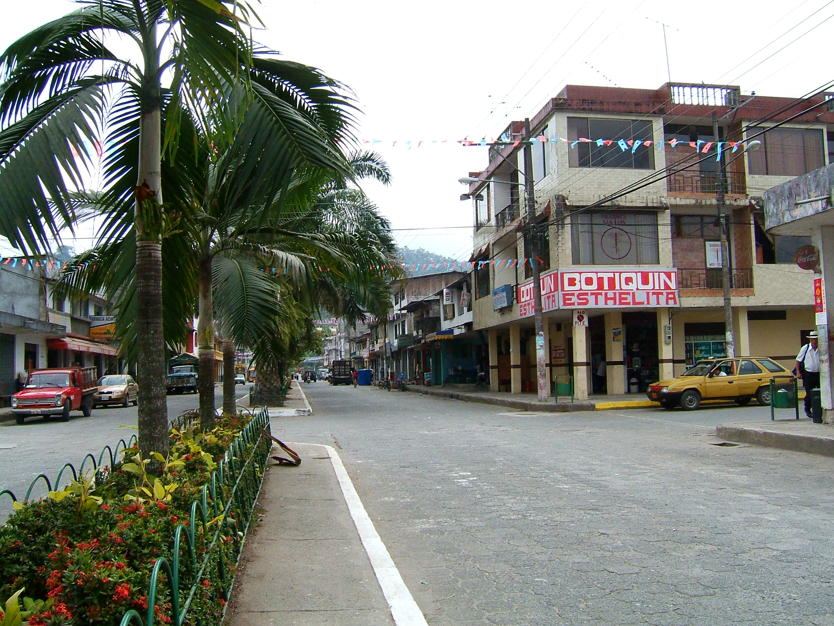 Justin Klubnik